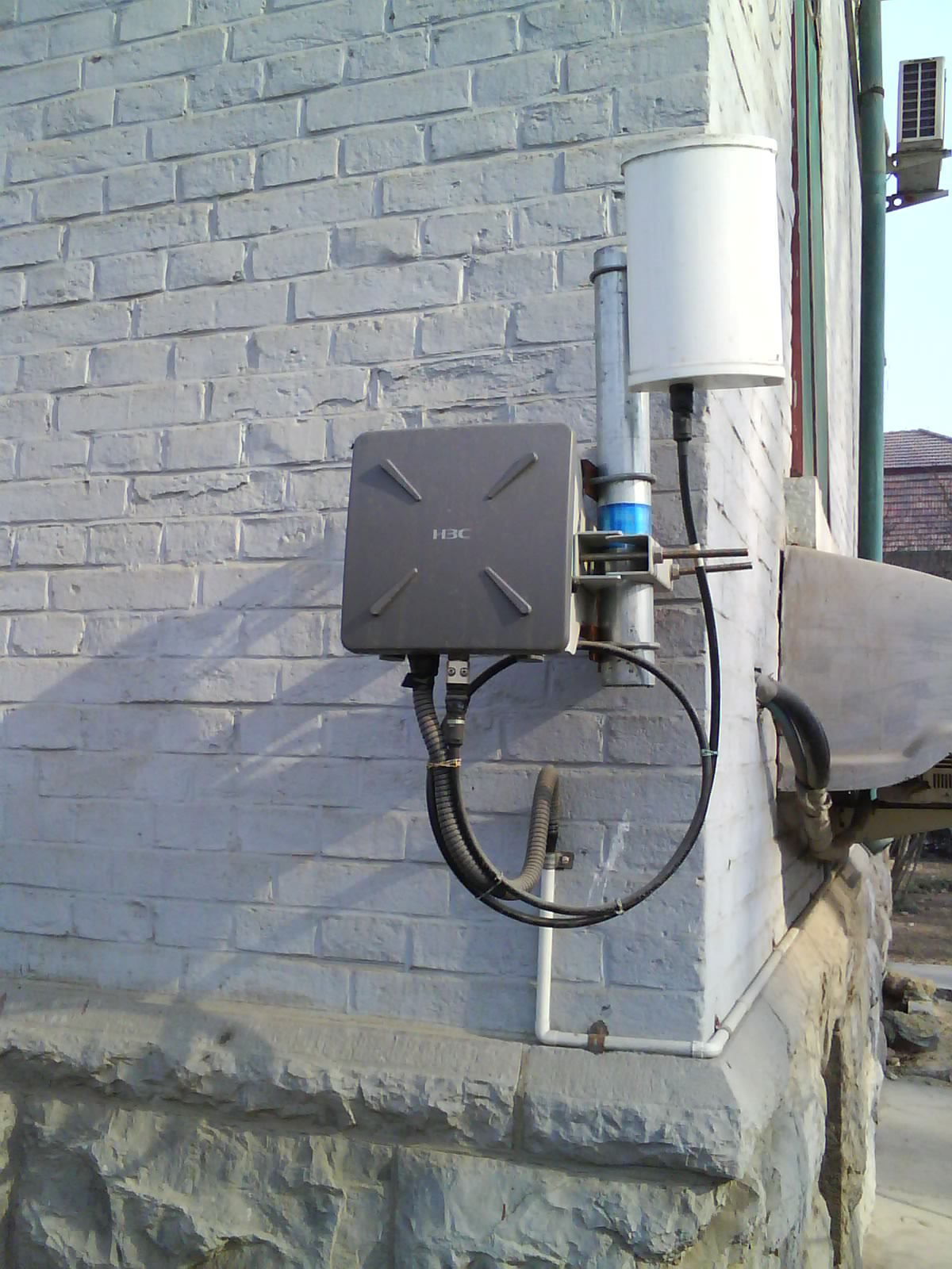 A H3C (former Huawei-3Com) wireless netwok device in a university